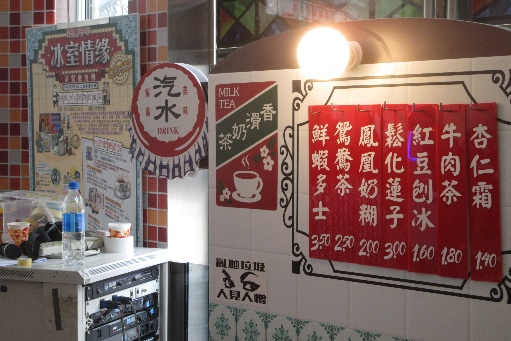 HK 旺角 Mongkok 始創中心 Pioneer Centre exhibition in Oct 2017